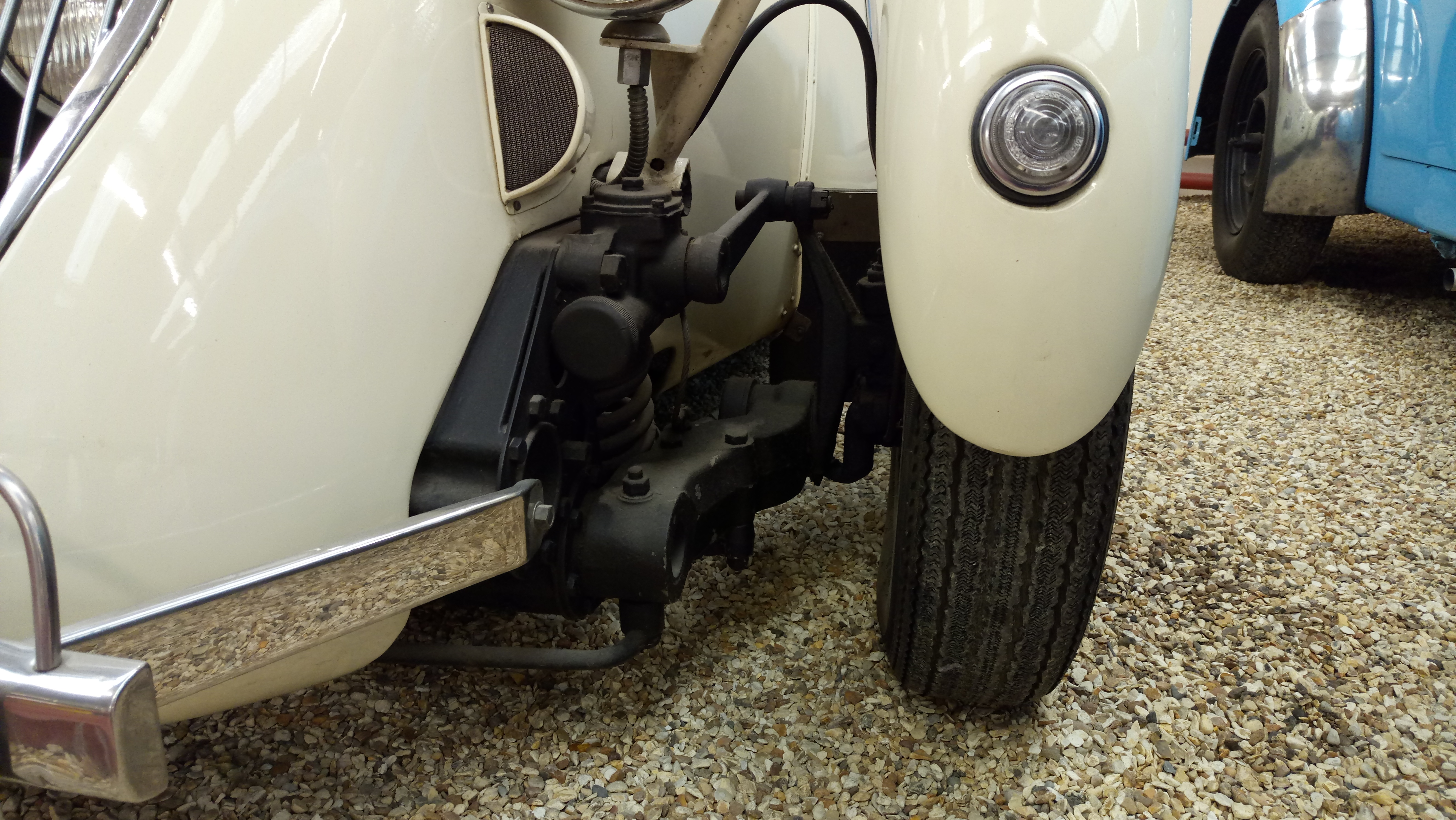 1950 Healey Silverstone front suspension, photographed at Haynes International Motor Museum.